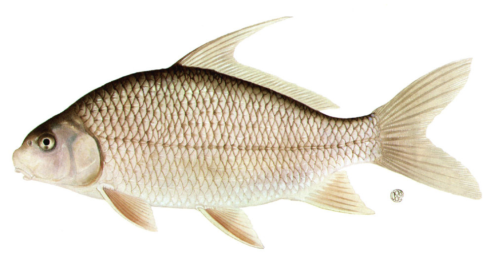 Quillback (Carpiodes cyprinus)